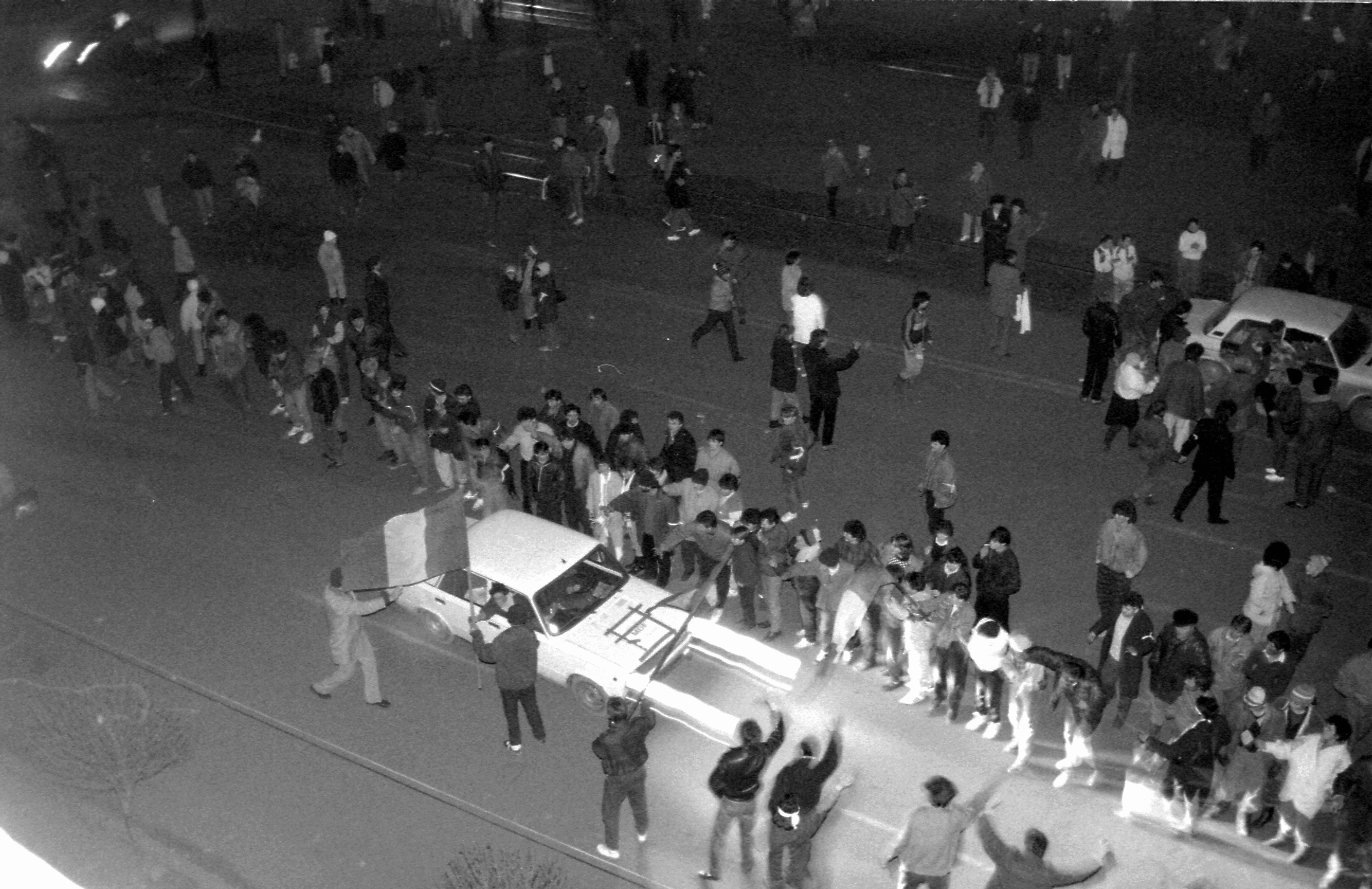 Location: Romania, Transylvania, Timisoara Tags: Lada-brand, flag, gesture